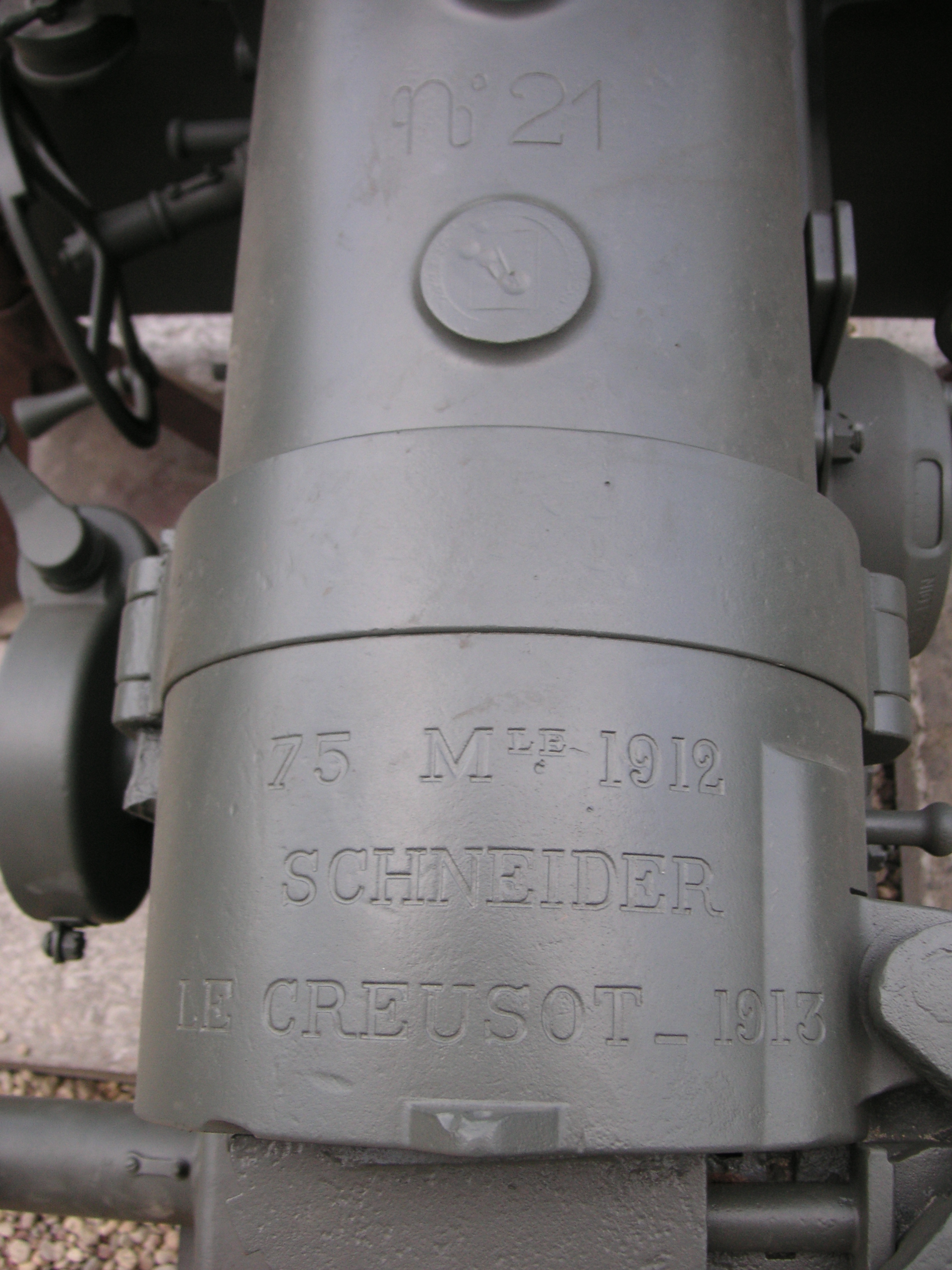 Markings of the French Canon de 75 modèle 1912 Schneider. Polish Army Museum